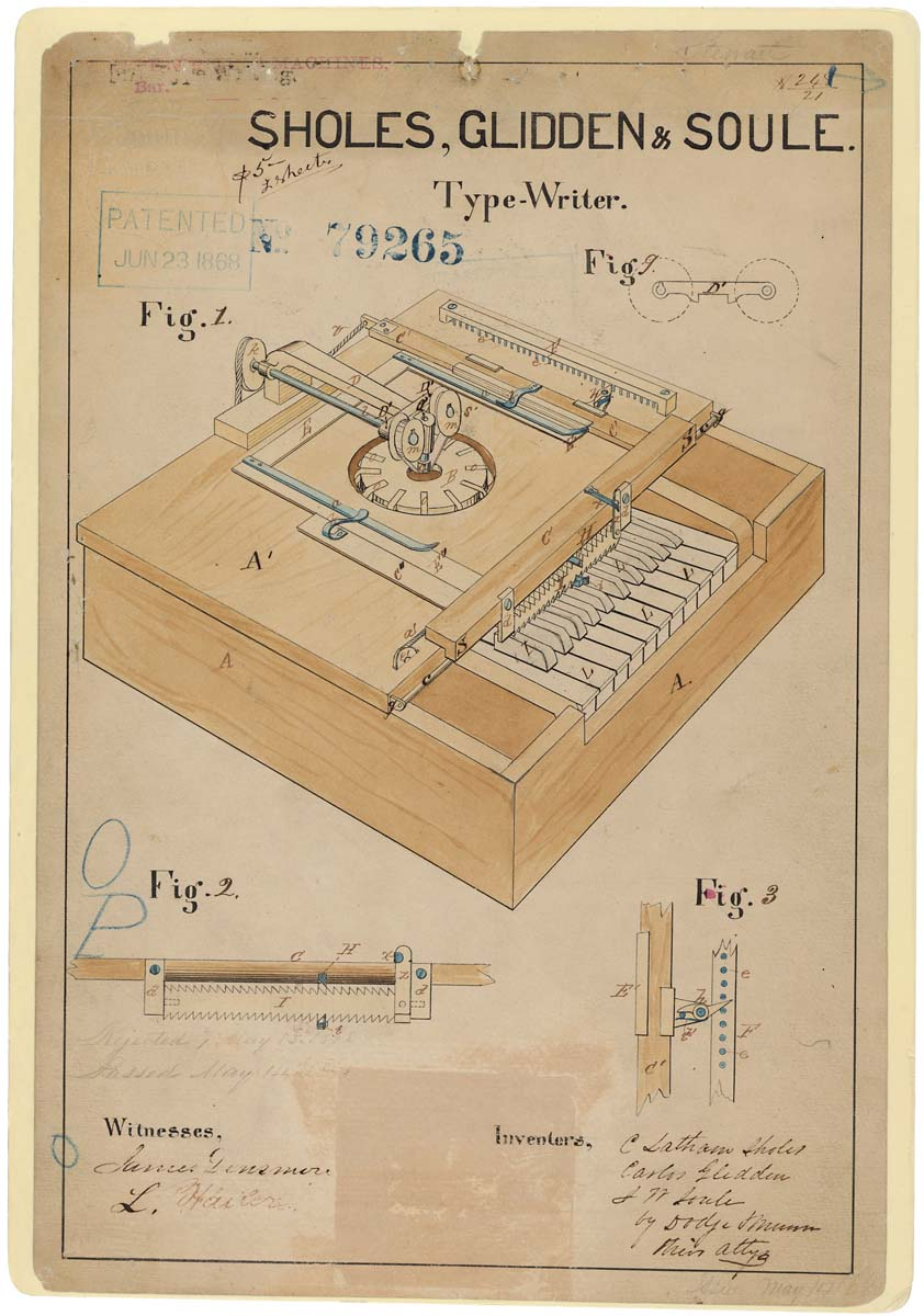 Drawing for a Typewriter, 06/23/1868. This is the printed patent drawing for a typewriter invented by Christopher L. Sholes, Carlos Glidden, and J. W. Soule. From the National Archives